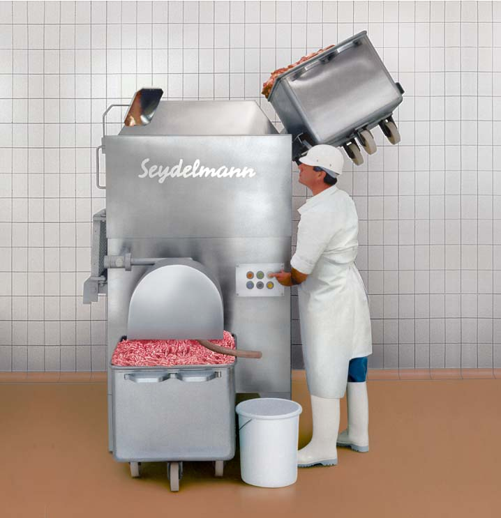 An mixing grinder AM 130